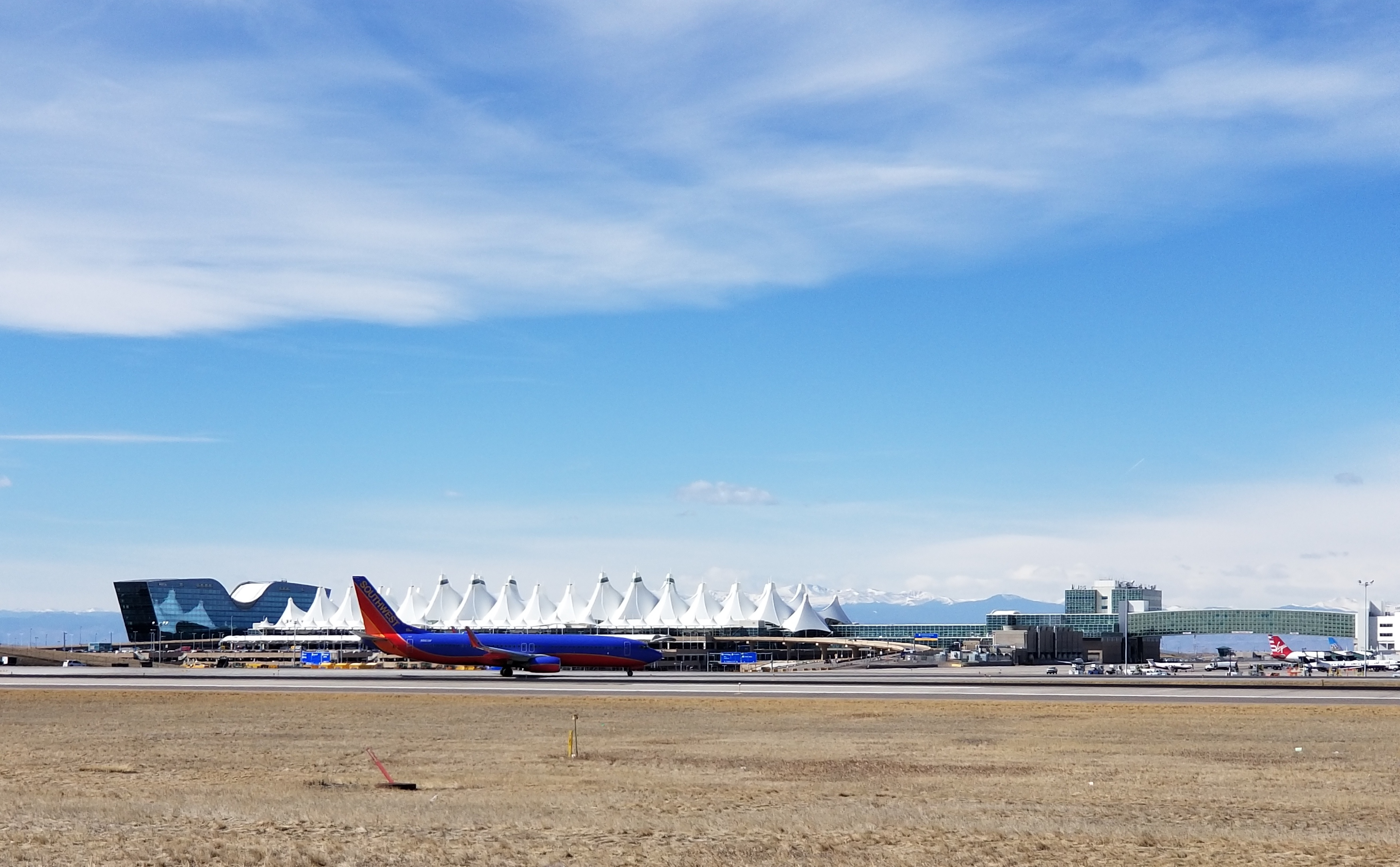 A Southwest Airlines Boeing 737-800 Taxis north at Denver International Airport